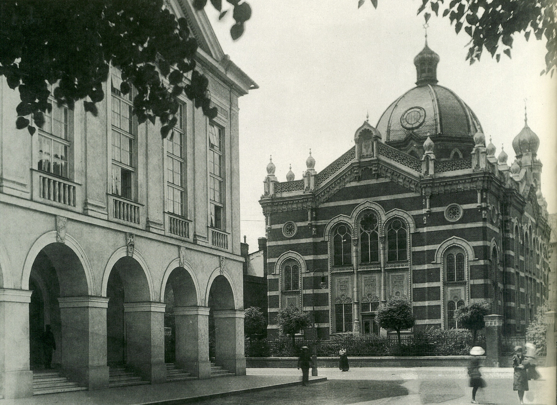 Synagogue in Opawa